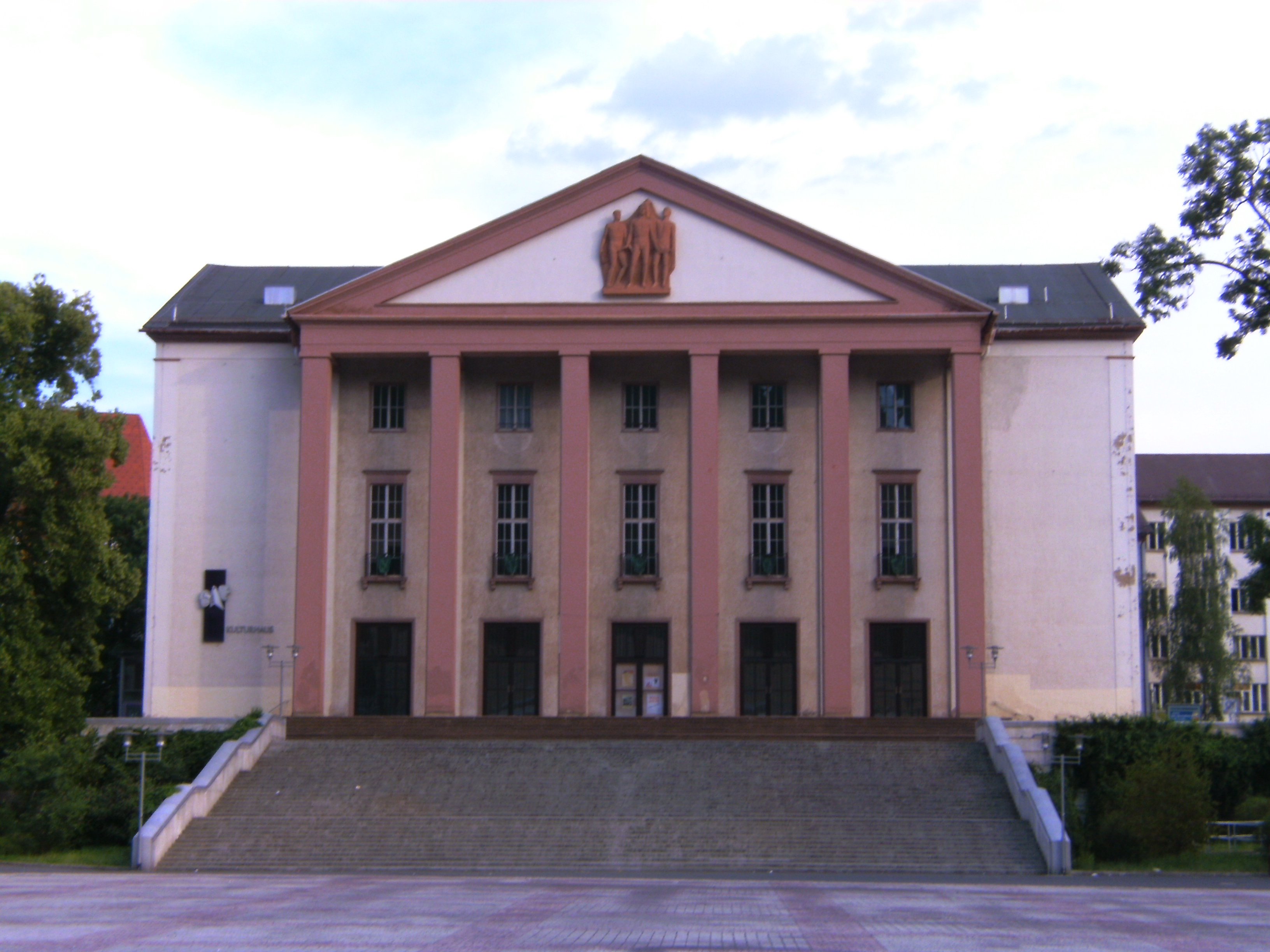 "Kulturhaus" in Suhl